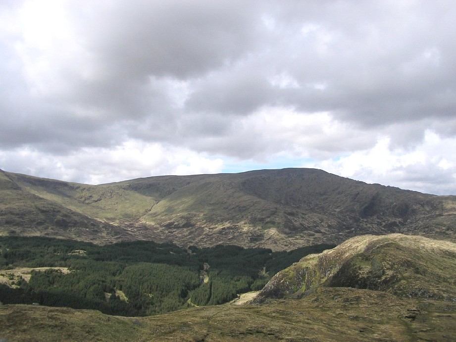 A picture of Merrick in Galloway (Scotland), seen from the Rig of Loch Enoch. Taken on 22nd May 2005, by User:Grinner